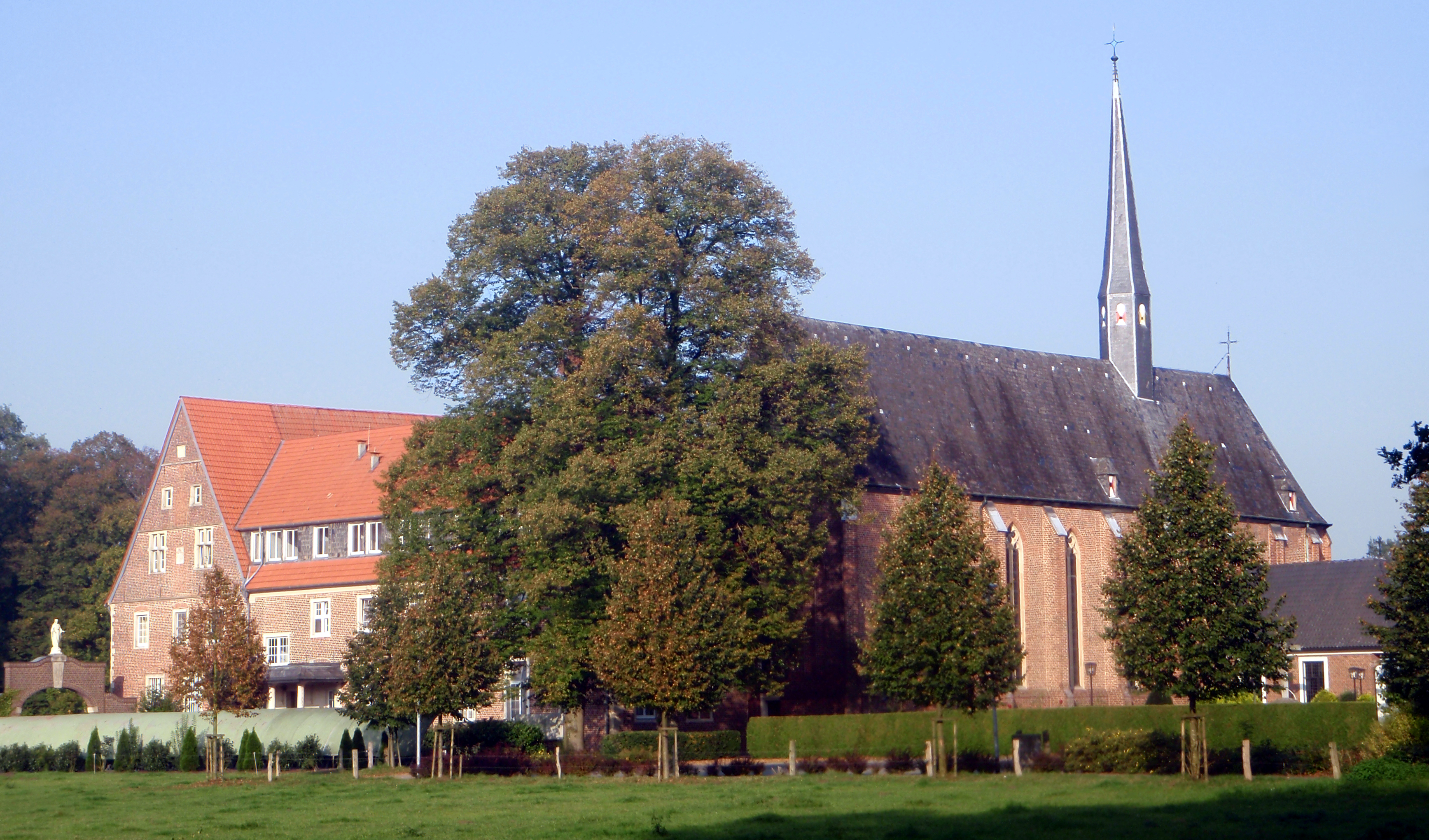 The monastery Mariengarden and the church St. Marien in Burlo, city of Borken, North Rhine-Westphalia, Germany, Photo was taken 10/02/2011.